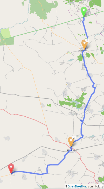 Territorial route T0611